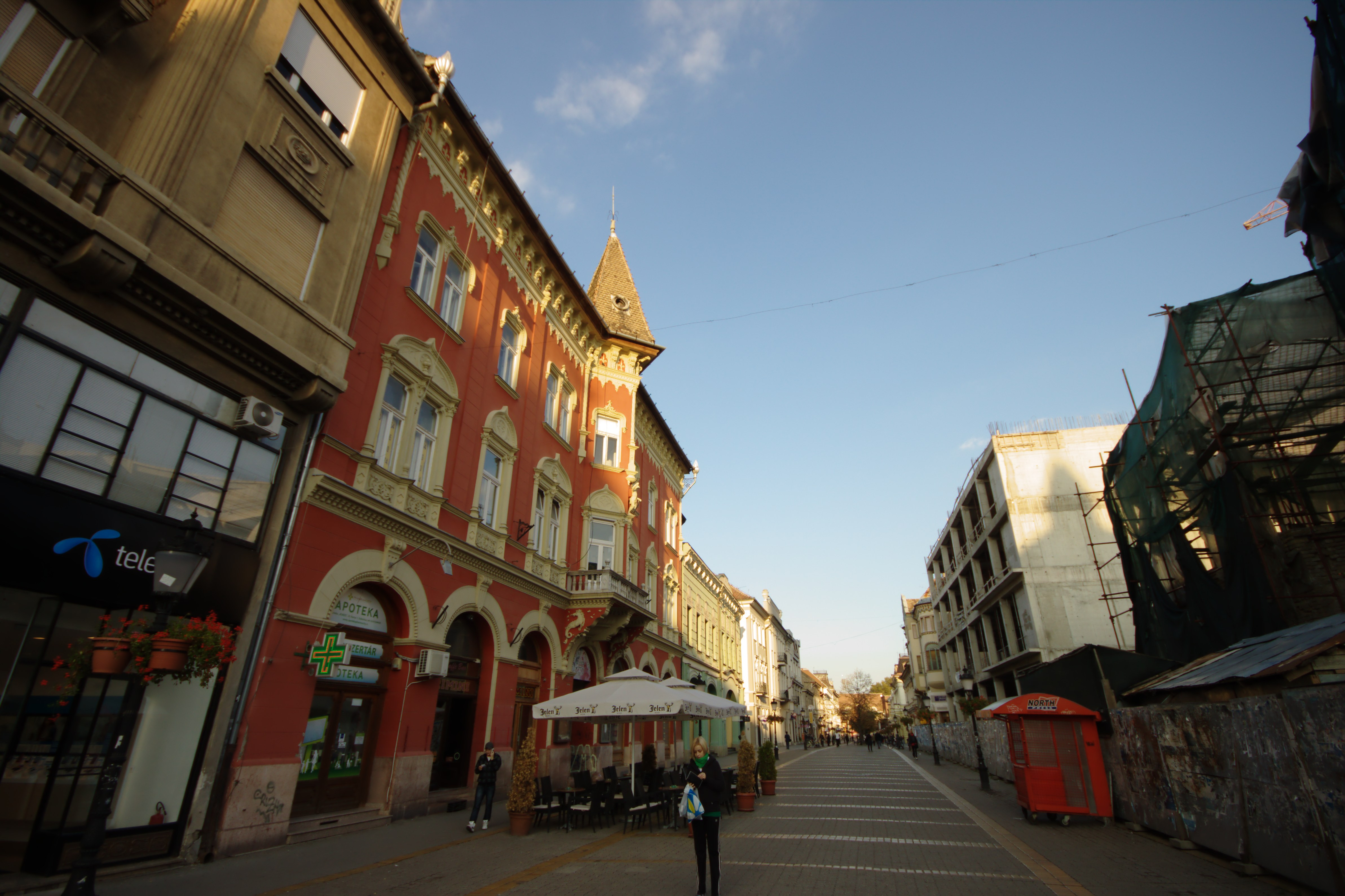 Central part of Subotica, Serbia